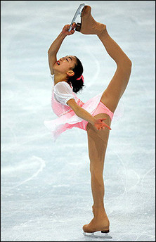 Mao Asada performs a one-hand Biellmann spin